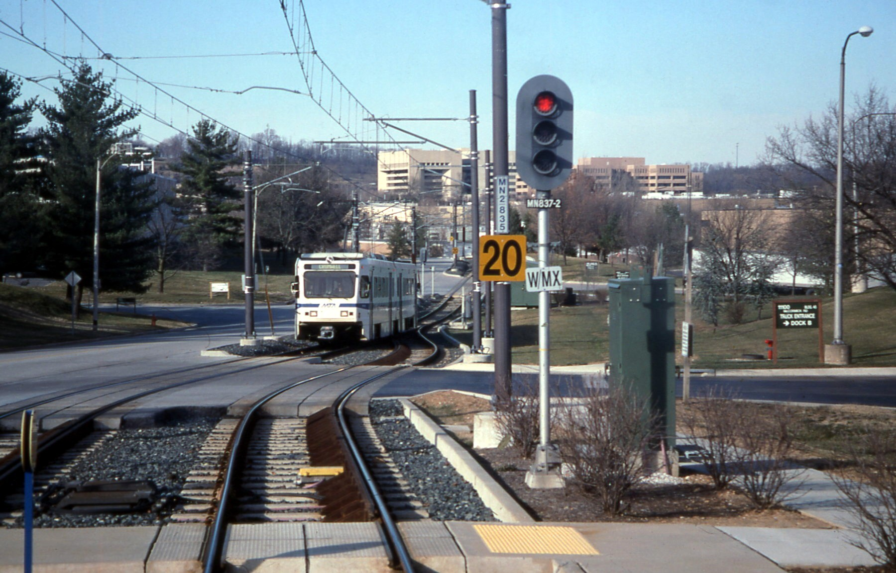 A southbound Baltimore Light Rail train enters Gilroy Road station in March 2000